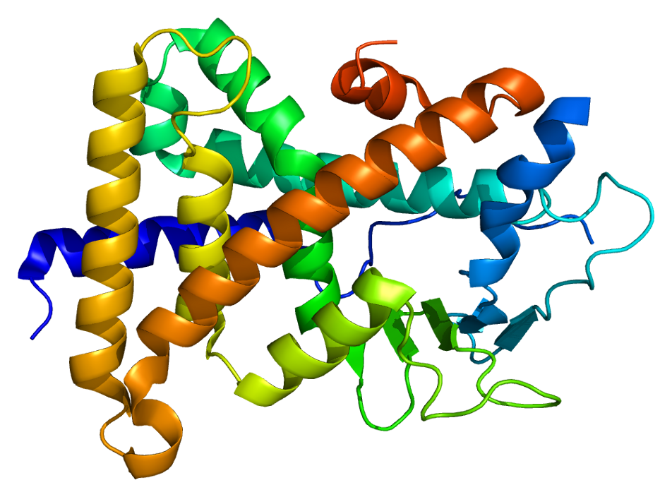 Structure of the NR1I2 protein. Based on PyMOL rendering of PDB 1ilg.